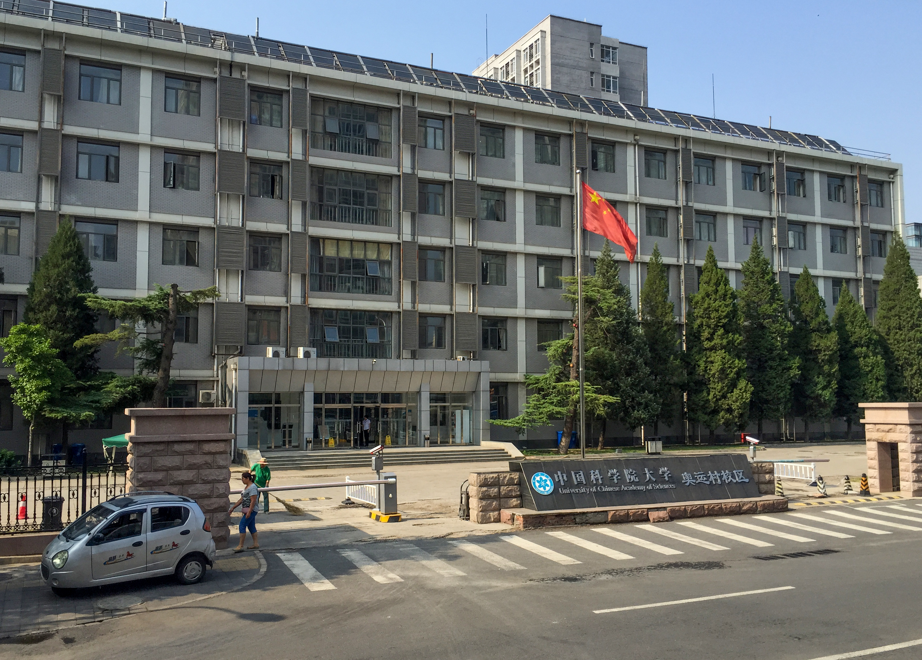 Taken on a T13 after my SX50 HS malfunctioned.